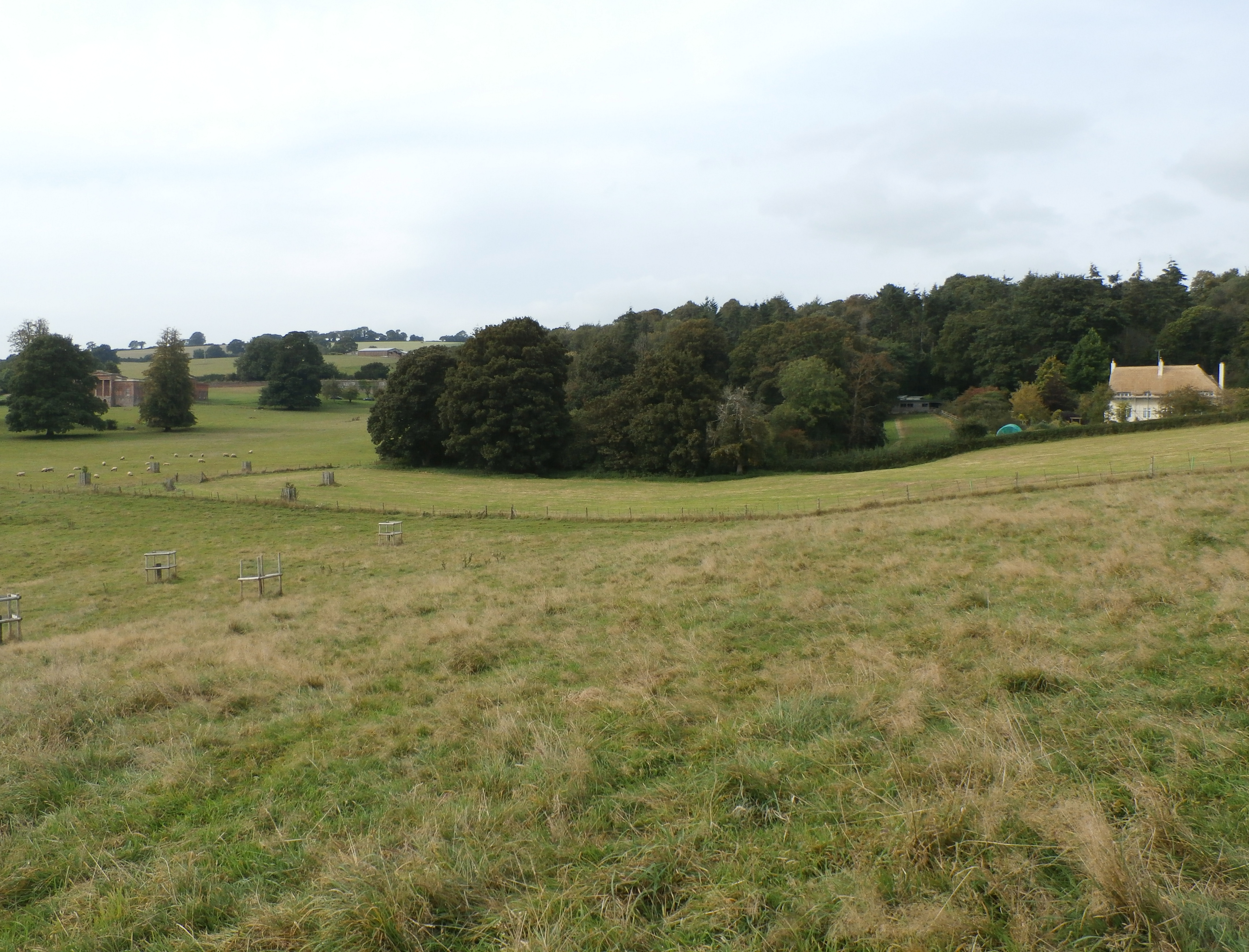 Site of Silverton Park mansion house, built 1839, demolished 1901, now overgrown with trees (centry). Viewed from south-east. At far left (west) is the surviving red-brick stable block; at far right is a modern thatched cottage-ornee named "Combe Satchfield", after the original name of the house and estate on which Silverton Park was built. The holly tree at the SE angle of the site (with top branches denuded of leaf) is the same tree as appears in several of the last photographs taken of the mansion